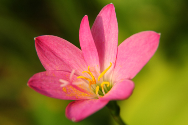 Zephyranthes minuta